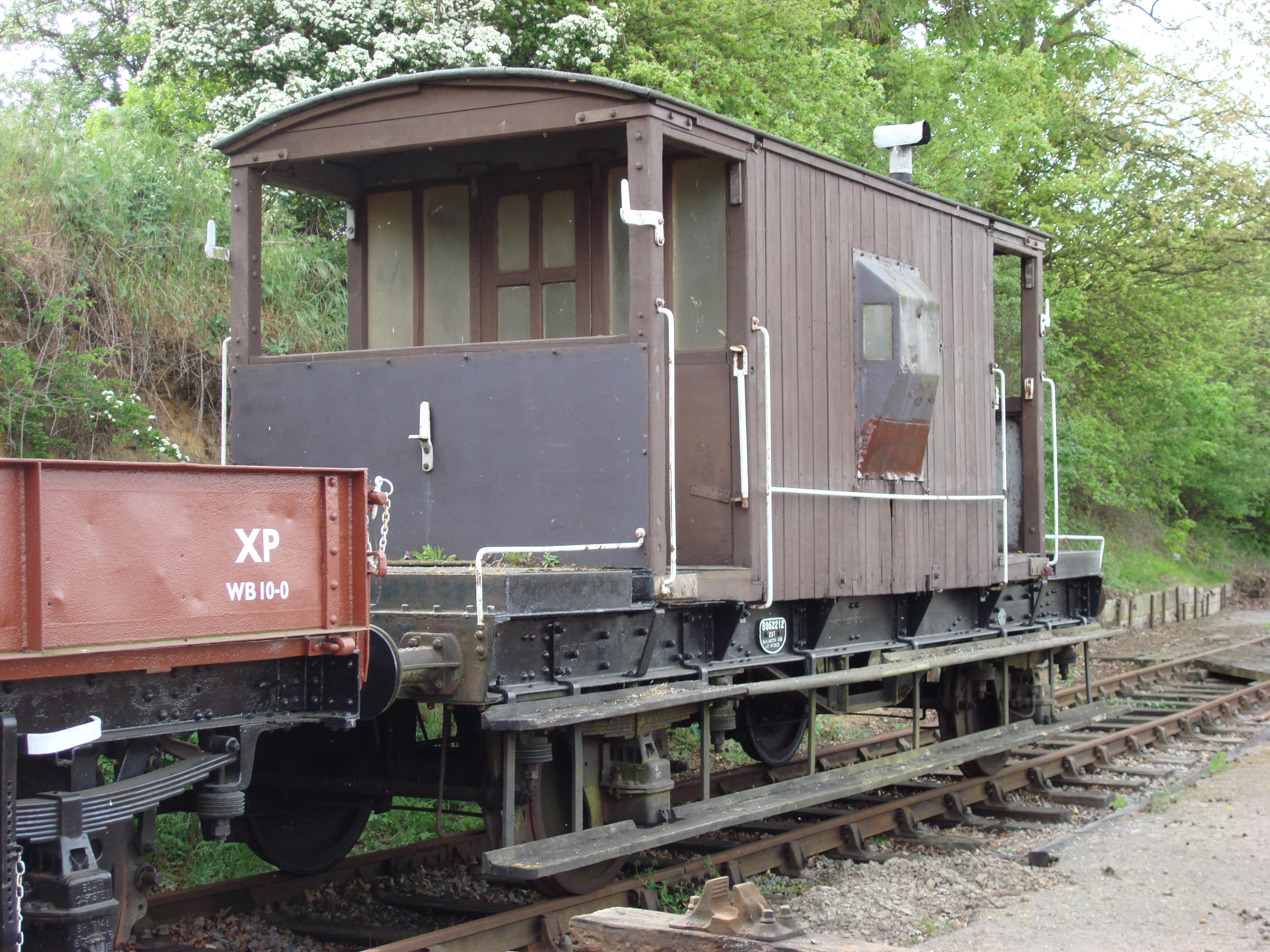 BR built many brake vans which were similar to an erlier LNER design. This BR brake van is at the Colne Valley Railway